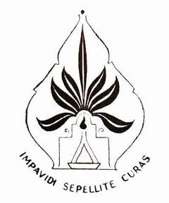 Shield of the Batavian Student Corps in Batavia, Dutch East Indies